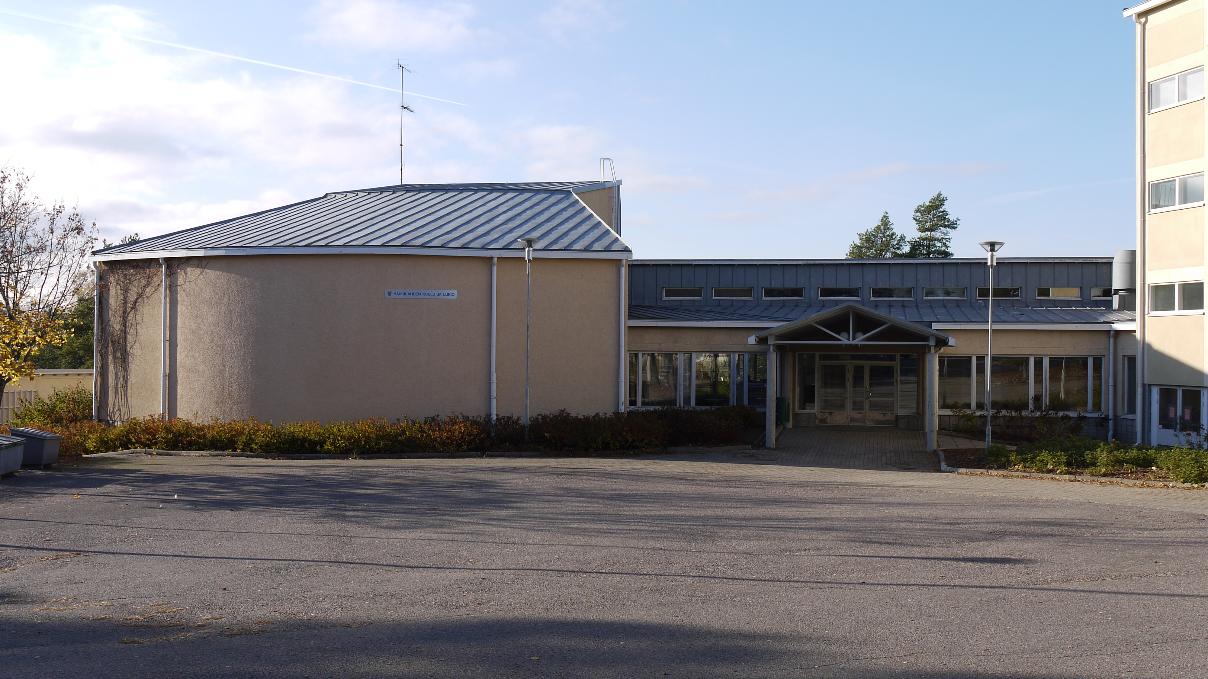 Building of Haukilahti Upper Secondary school in Espoo.